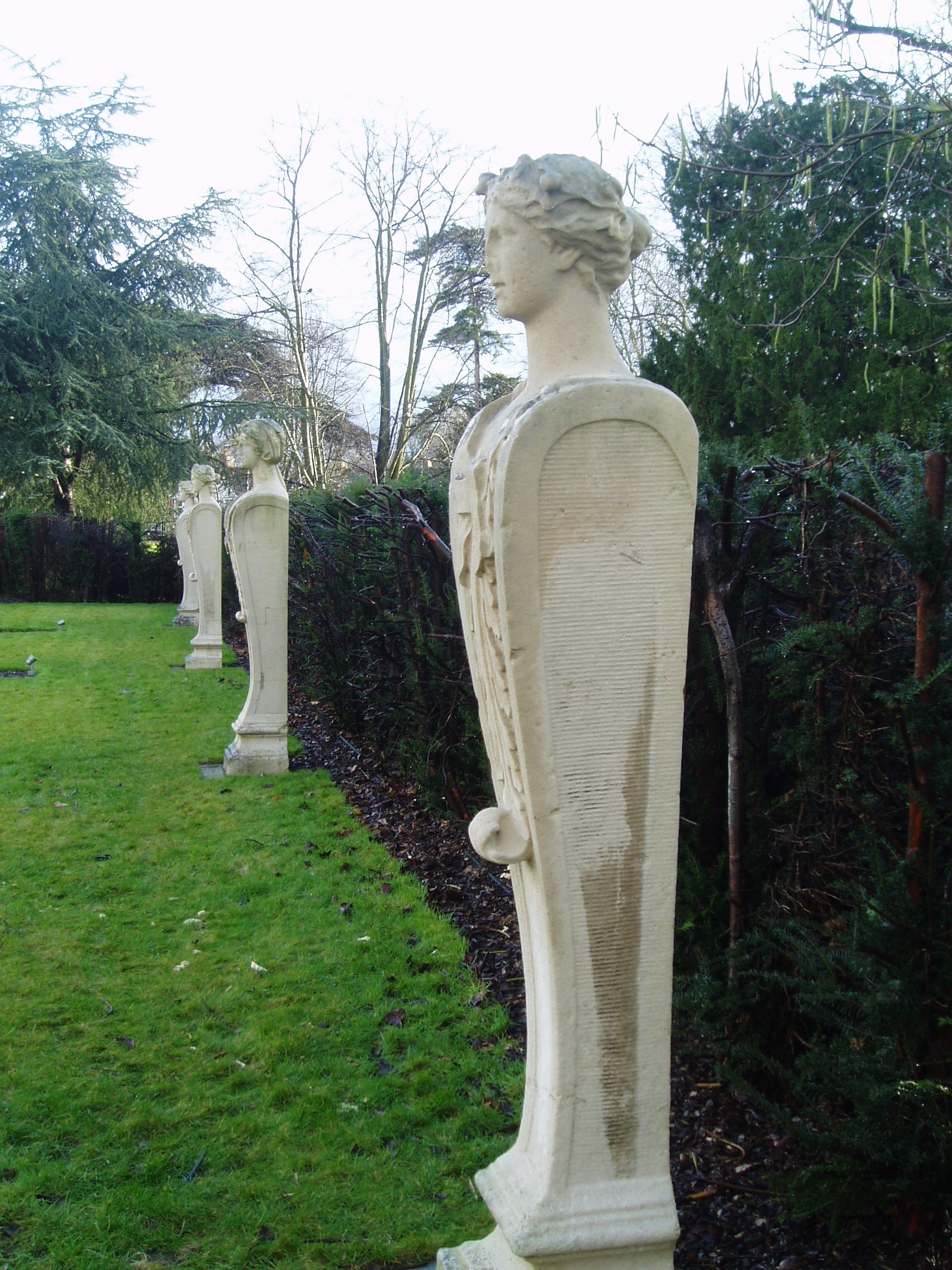 'Term' statues at the front of the villa. This type of statue were derived from the Roman god 'Terminus', the god of distance and space, hence their use as boundary markers